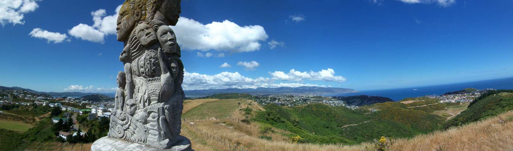 Bruce Stewart Tawatawa Ridge powhenua sculpture of Maori Chiefs